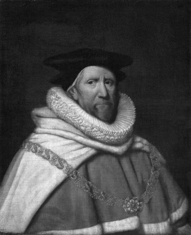 Sir John Bramston (1577-1654)